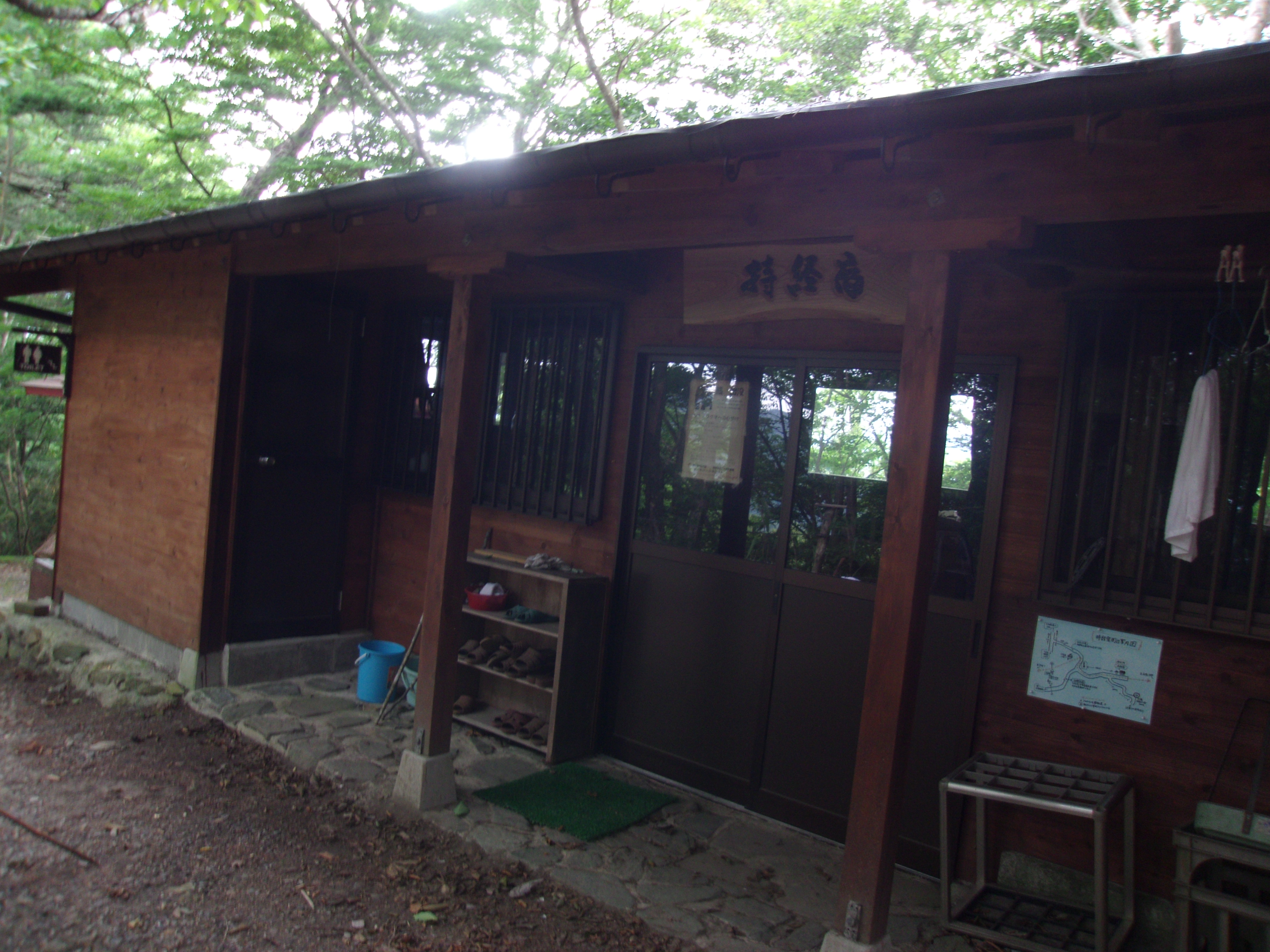 Mountain hut Jikyo-no-shuku yamagoya on the Omine okugake-michi trail in the Omine Mountains, Nara Prefecture, Japan